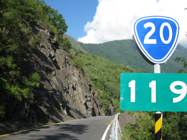 Provincial Highway No.20 passing through on the hillside of Mamayudun Mountain in the county of Kaohsiung,showing a section at km119.